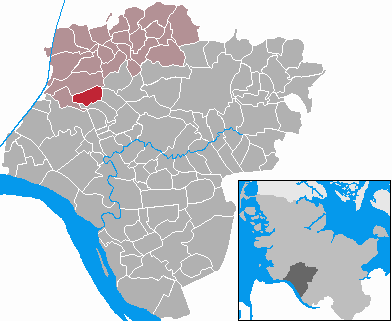 This map shows the area of the municipality Nutteln in the Kreis (district) Steinburg, Schleswig-Holstein, Germany.